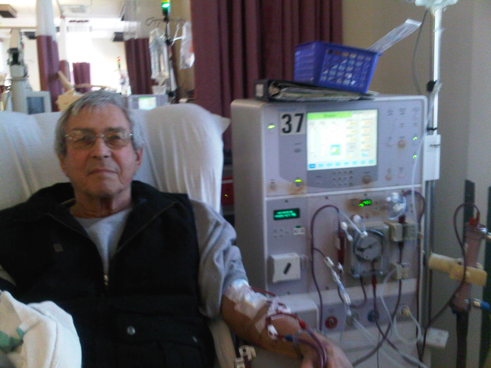 Patient receiving dialysis.